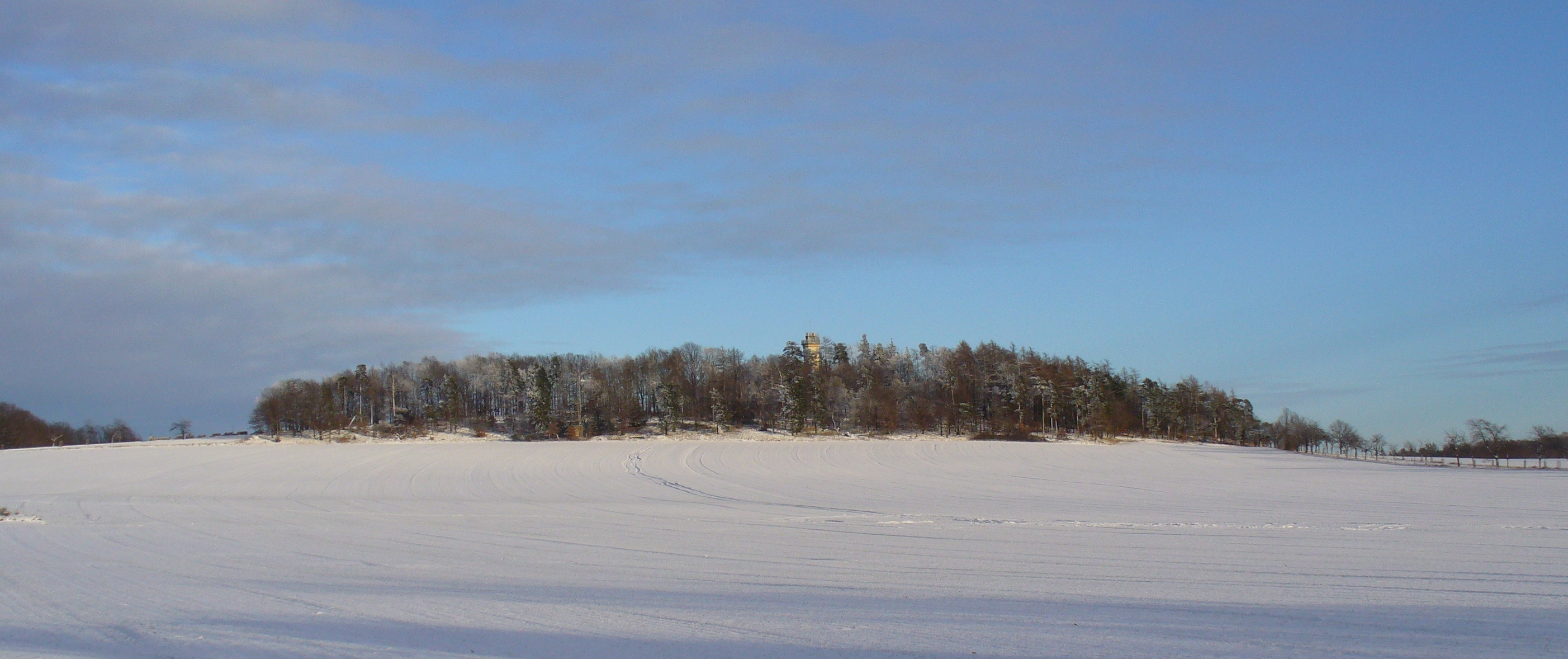 Monumentberg, near Groß Radisch, Saxony, Germany, Europe